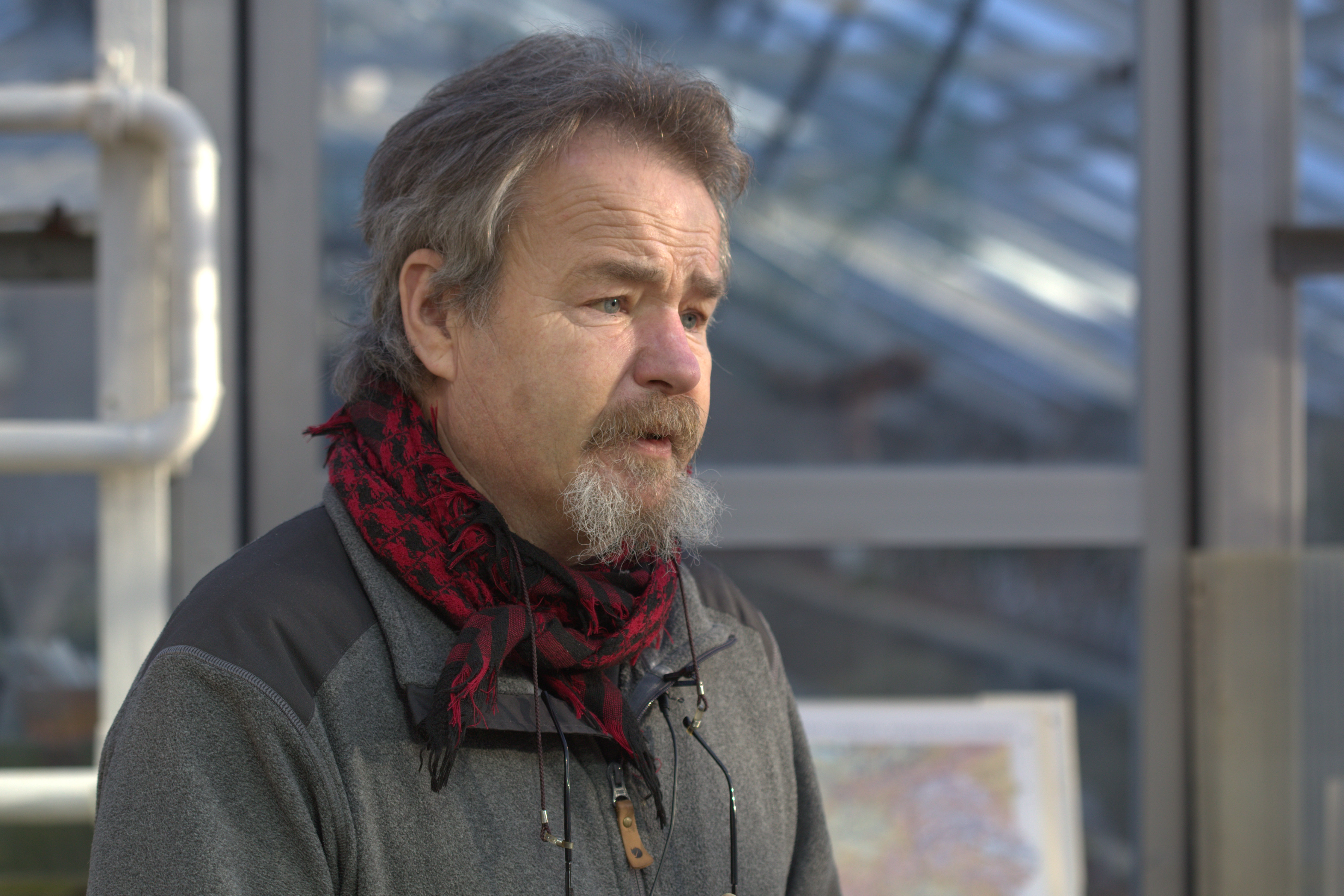 Henrik Zetterlund lecturing about the Dionysia collection at Gothenburg Botanical Garden in January 2015.